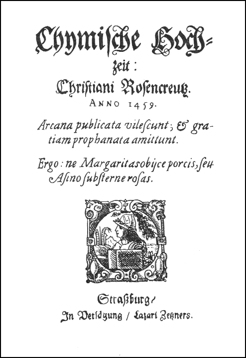 The title page of "Chymische Hochzeit Christiani Rosencreutz anno 1459" original edition in 1616